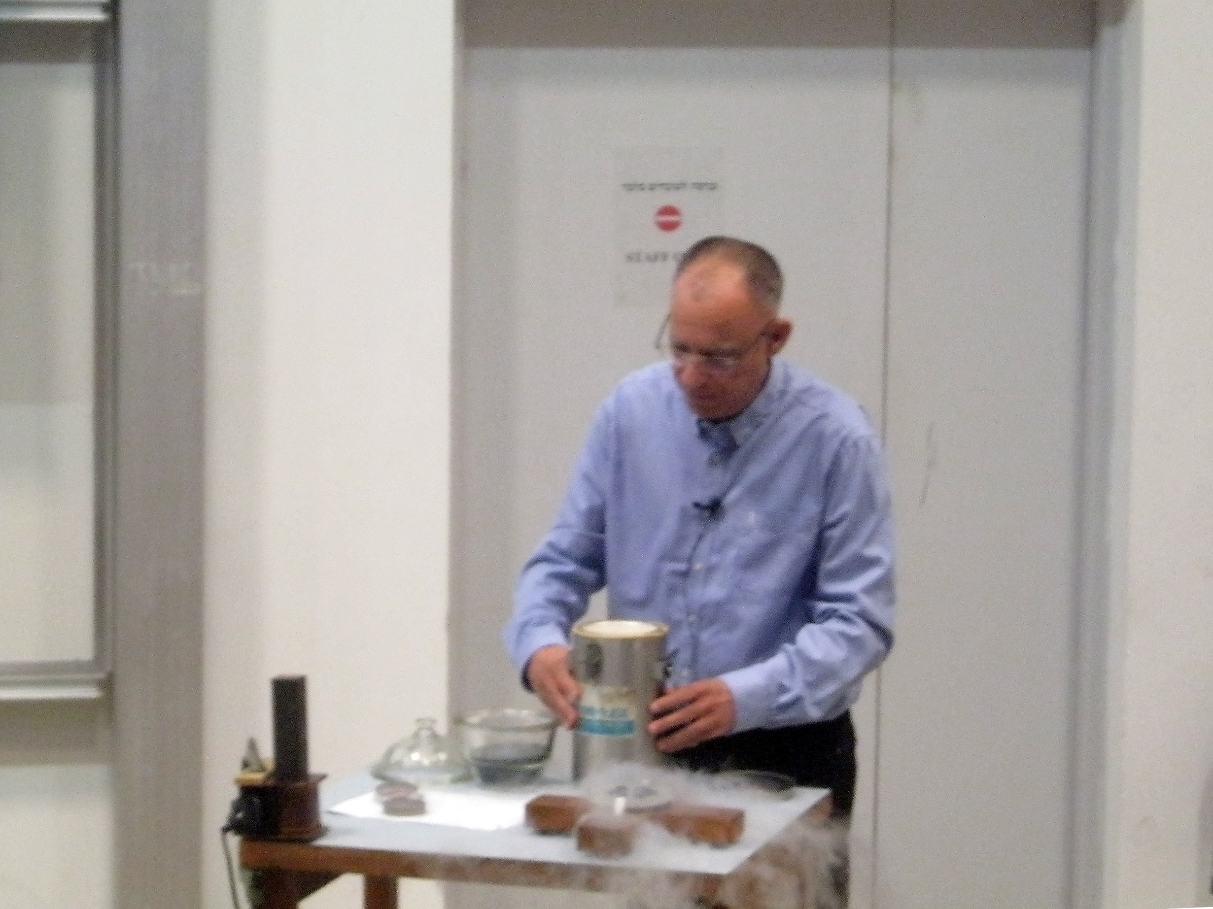 Noam Soker, Dean of Techion Faculty of Physics.